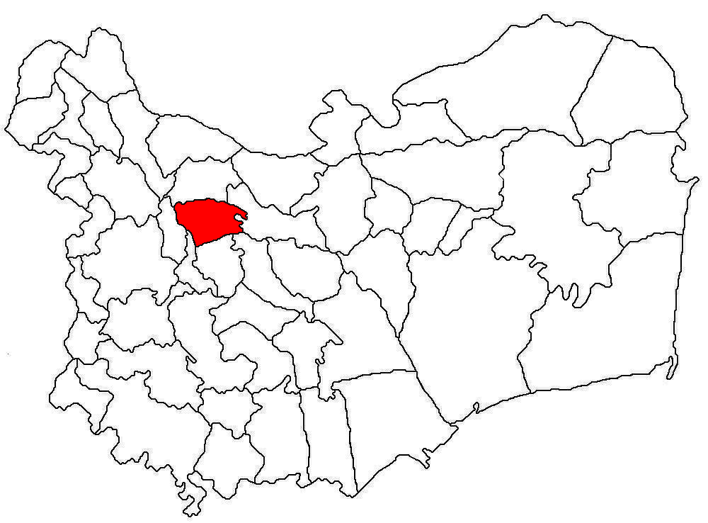 Locator map of the commune Valea Teilor in Tulcea County